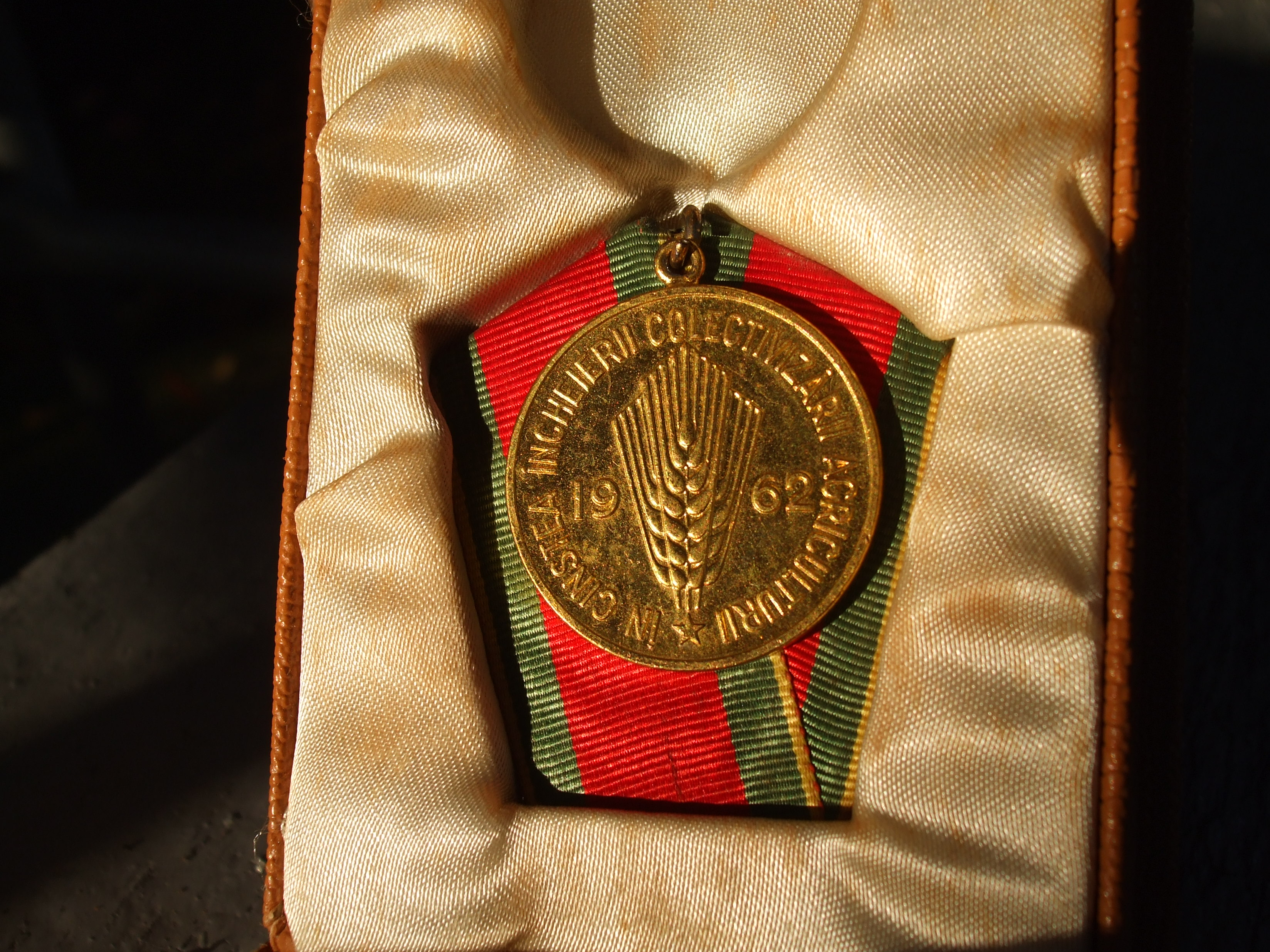 Medal granted in 1962 to some collective farm presidents, upon the completion of collectivization in Romania